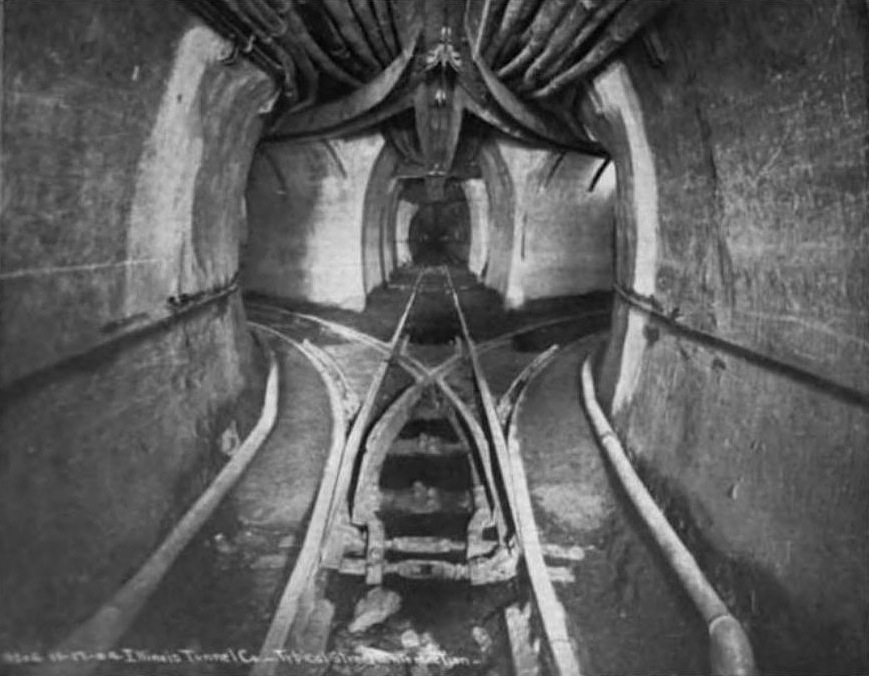 Caption inscribed on photo: "(Illegible 11-17-04?) Illinois Tunnel Co -- Typical Street Intersection". The Illinois Tunnel Company later became the Chicago Tunnel Company, a narrow gauge underground common carrier railroad serving downtown Chicago.